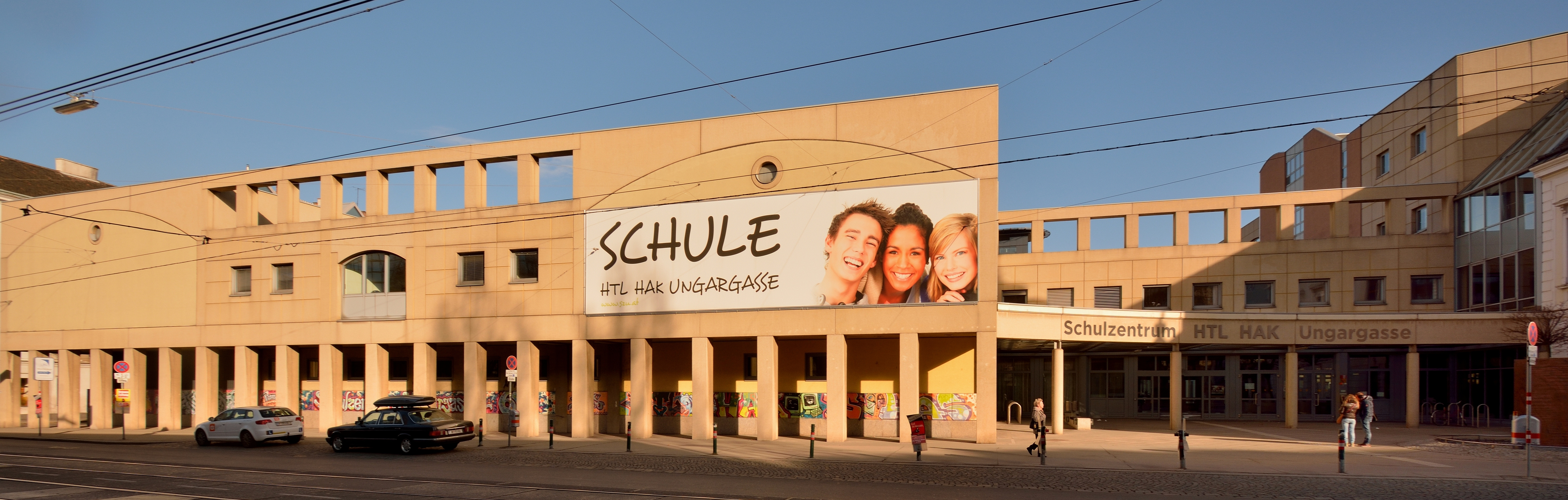 School center Ungargasse, 3rd district of Vienna